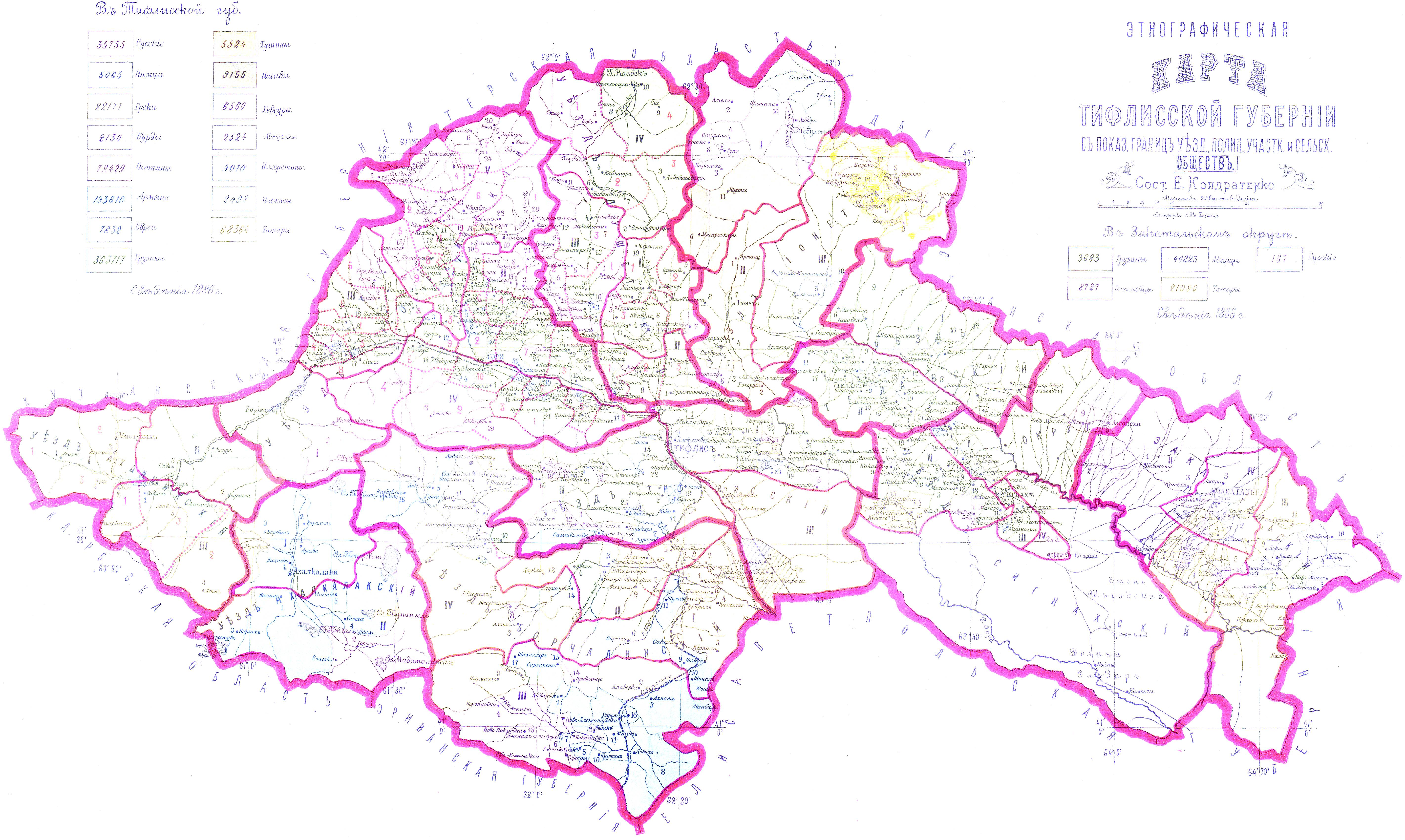 Ethnographic map of the Tiflis Governorate 363,717 Грузины 193,610 Армяне 35,755 Русские 22,171 Греки 7,632 евреи 2,130 Курды